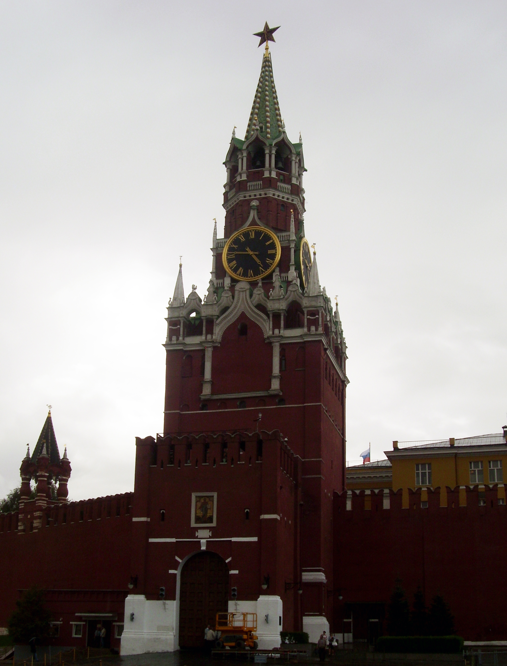 Spasskaya tower in the day of opening of the icon